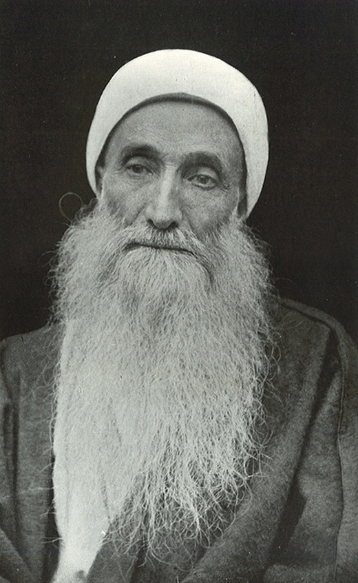 Subh-i-Azal the successor of the Báb. For more information about this , see Bahá'í/Bábí split and Azali.